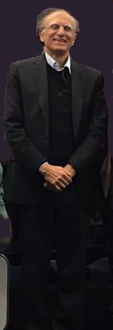 Photo of Sanjay Khosla - cropped from a group photo with me